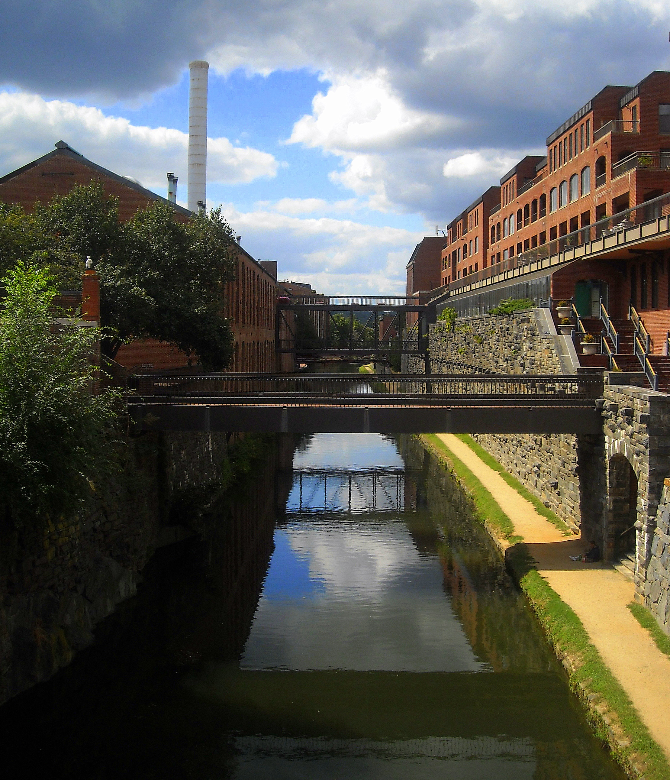 The Chesapeake and Ohio Canal, as viewed looking east from the Wisconsin Avenue bridge in the Georgetown neighborhood of Washington, D.C. The Chesapeake and Ohio Canal National Historical Park is listed on the National Register of Historic Places.